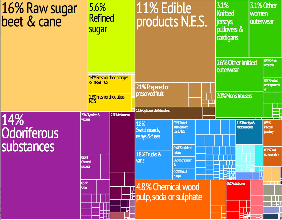 Export Trading Treemap. From MIT/Harvard Atlas of Economic Complexity